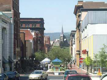 Downtown Cumberland, Maryland, in July 2001. Self-taken photograph by the author.